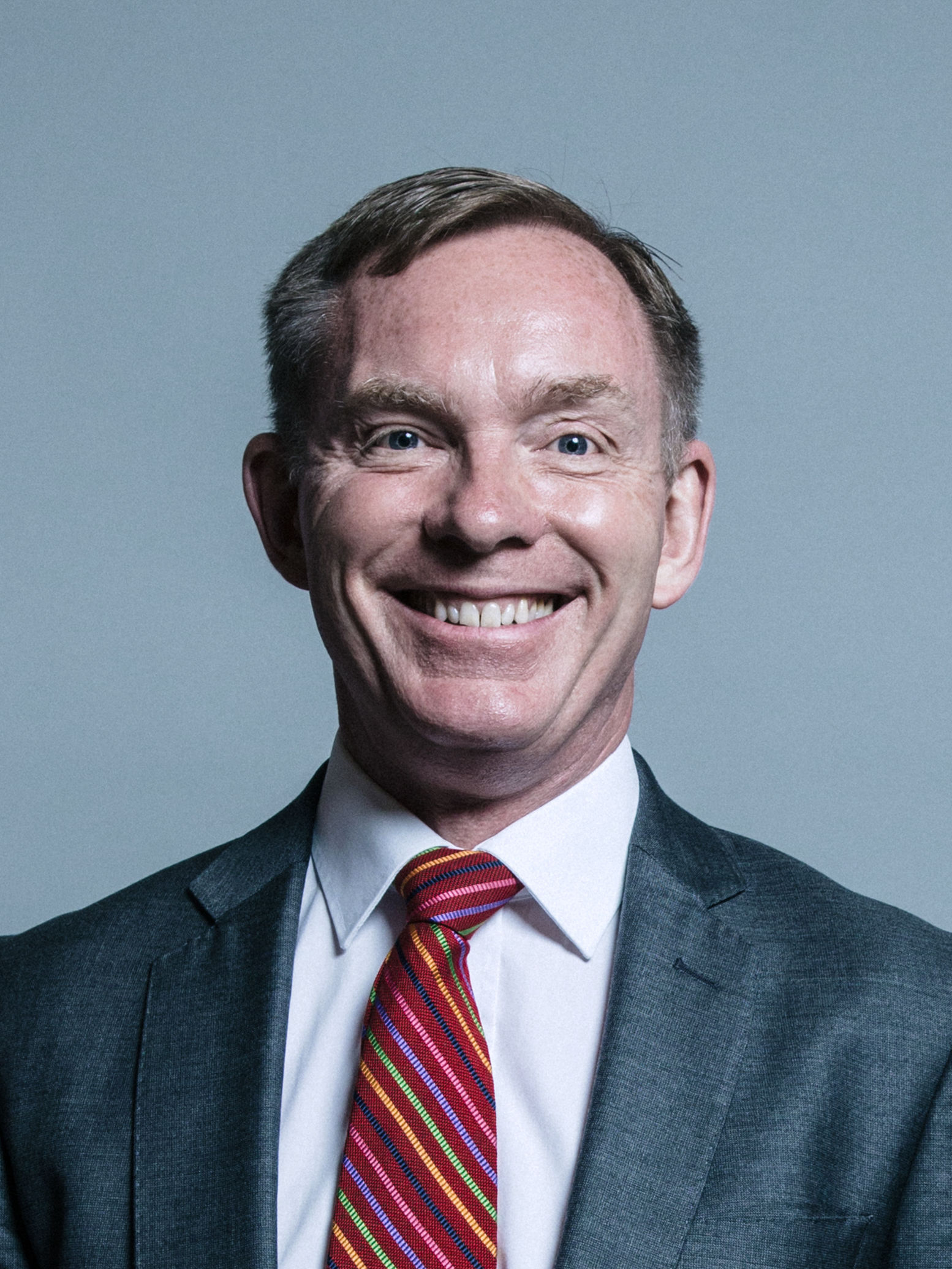 Official portrait of Chris Bryant